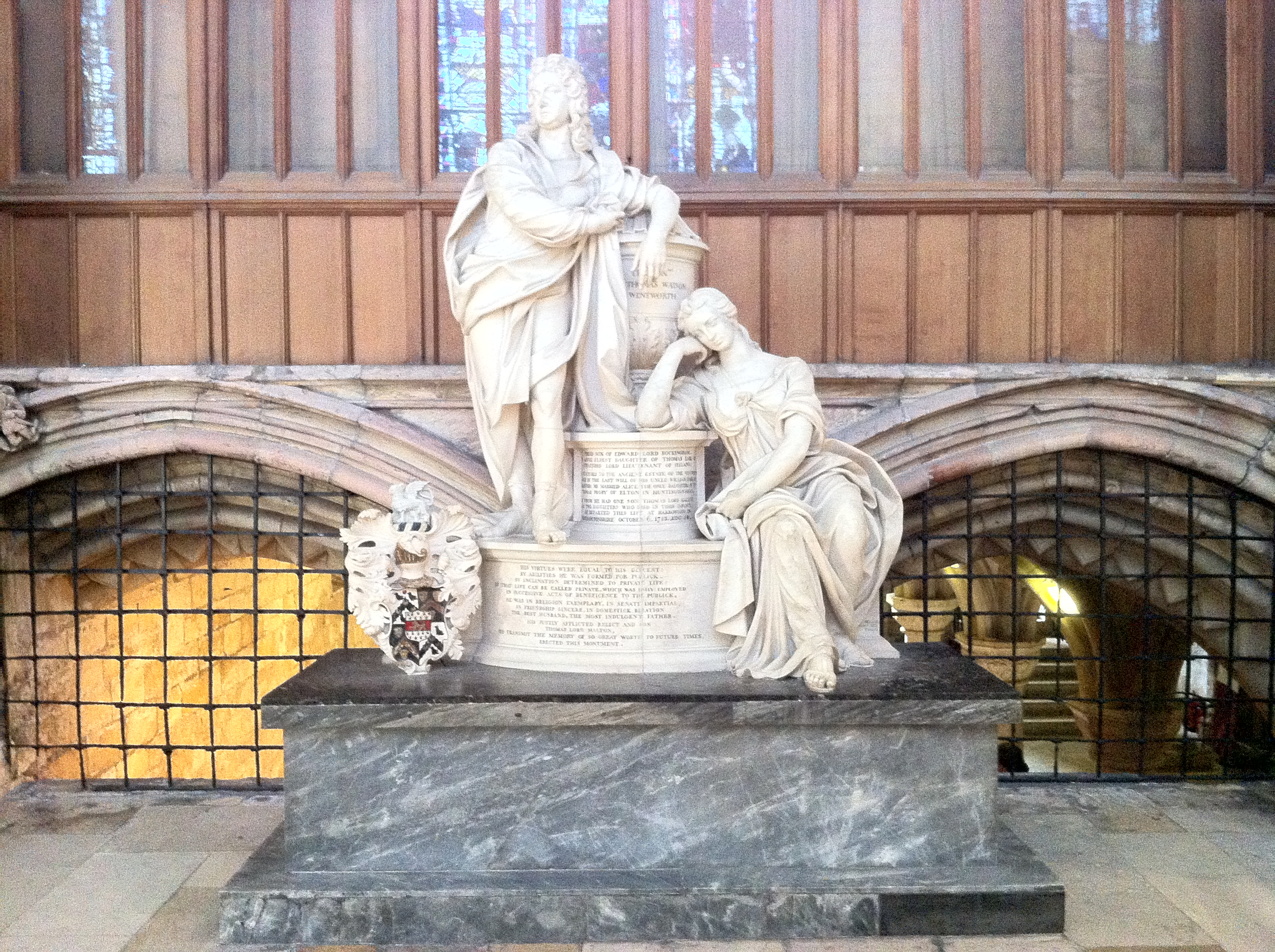 Memorial to Thomas Watson Wentworth (d. 1723) in the north choir aisle of York Minster. Designed by William Kent, executed by Giovanni Baptista Guelfi